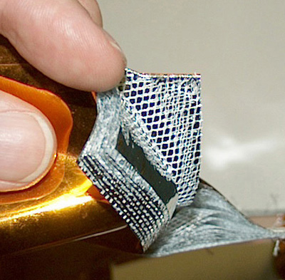 This picture was taken by John Rossie of , email John Paul Rossie . The image can also be found at He stated in an email, "I would be happy to grant you usage of the mentioned photos, provided that credit for this photo and all derivatives be given to . " LouScheffer 07:19, 22 December 2006 (UTC)